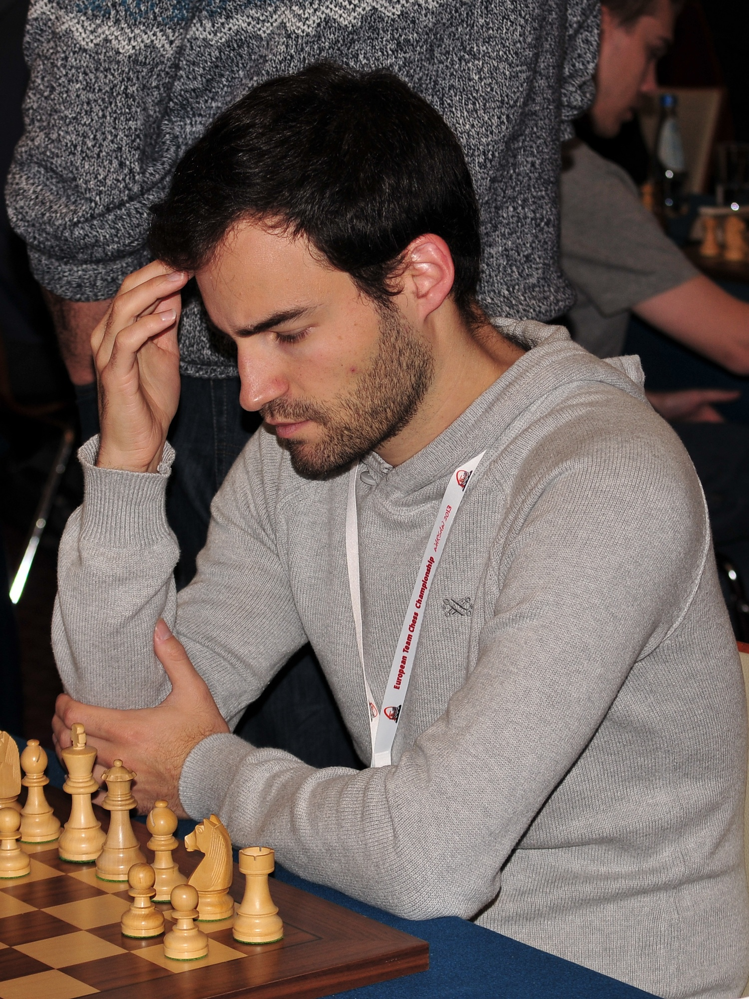 GM Yannick Pelletier, European Chess Team Championship Warsaw 2013